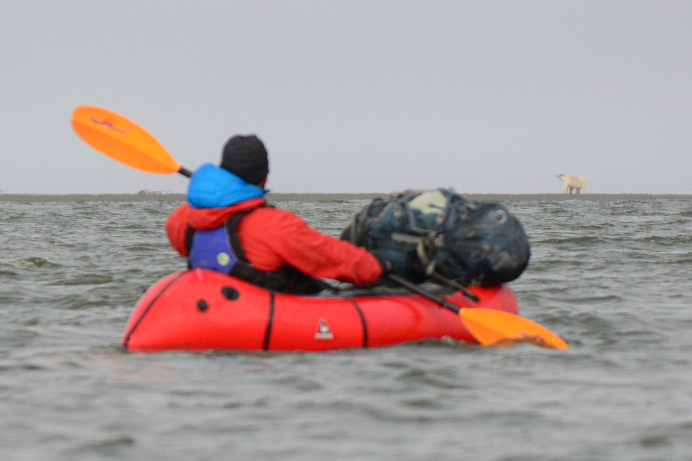 A packrafter floats near a polar bear on the Colville River Delta. North Slope, Alaska